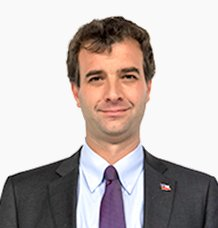 Official photo of Juan José Ossa Santa Cruz as Undersecretary General of the Presidency in 2020